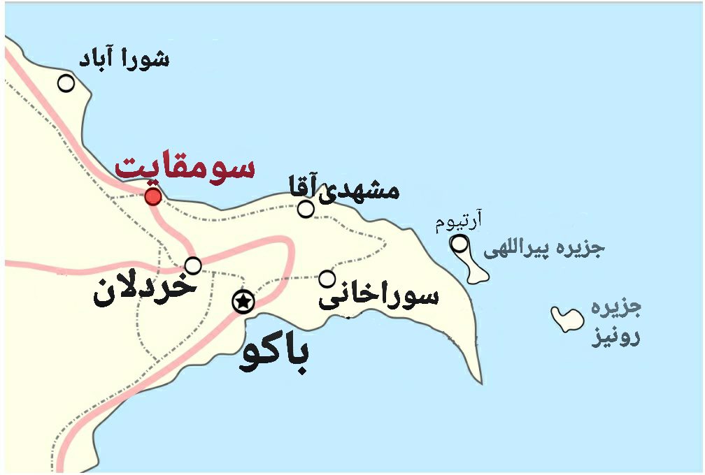 The Map of Azerbaijan showing location of Sumqayit. Persian version.